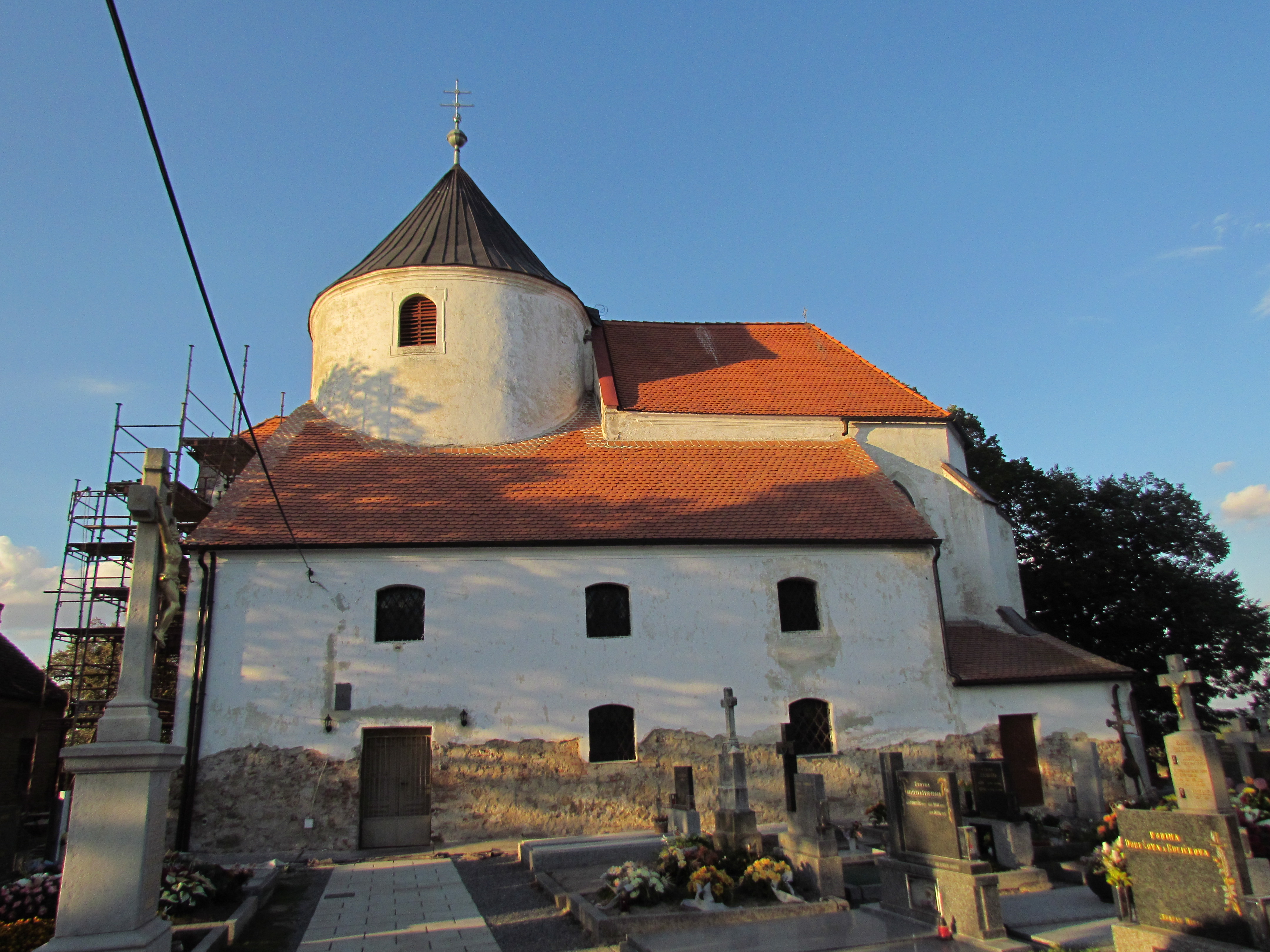 Overview of Church of Saint Barbara in Častohostice, Třebíč District.